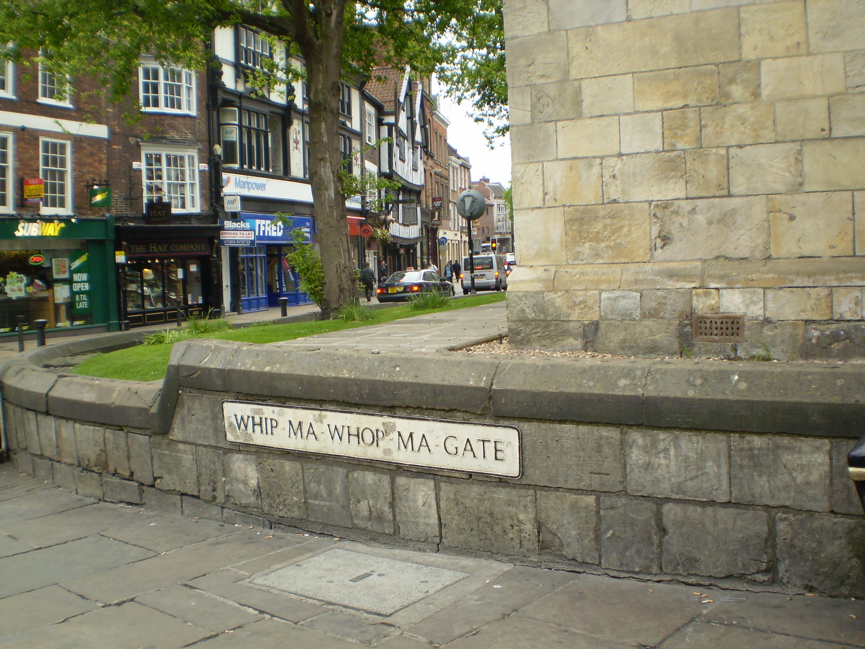 Whip-Ma-Whop-Ma_Gate the shortest street in York, England